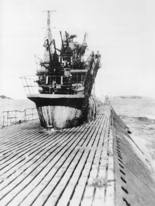 Bridge of I-351, sen-ho type of submarine of the Imperial Japanese Navy.